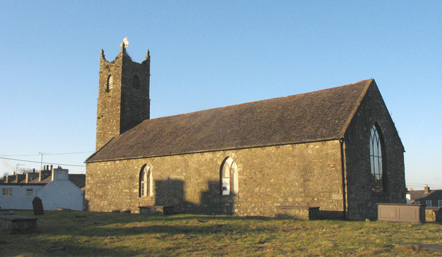 St Mary's Church, Nefyn The foundation of this ancient and, now, redundant church dates back to the 6th C. In the Middle Ages it was an important station on the pilgrim route to Bardsey and a priory was attached to it. Geraldus Cambrensis and Baldwin the Archbishop of Canterbury preached at the church on Palm Sunday 1188 during their recruitment campaign for the Crusades. They found, as Gerald testified, no shortage of recruits. The building now houses a maritime museum.